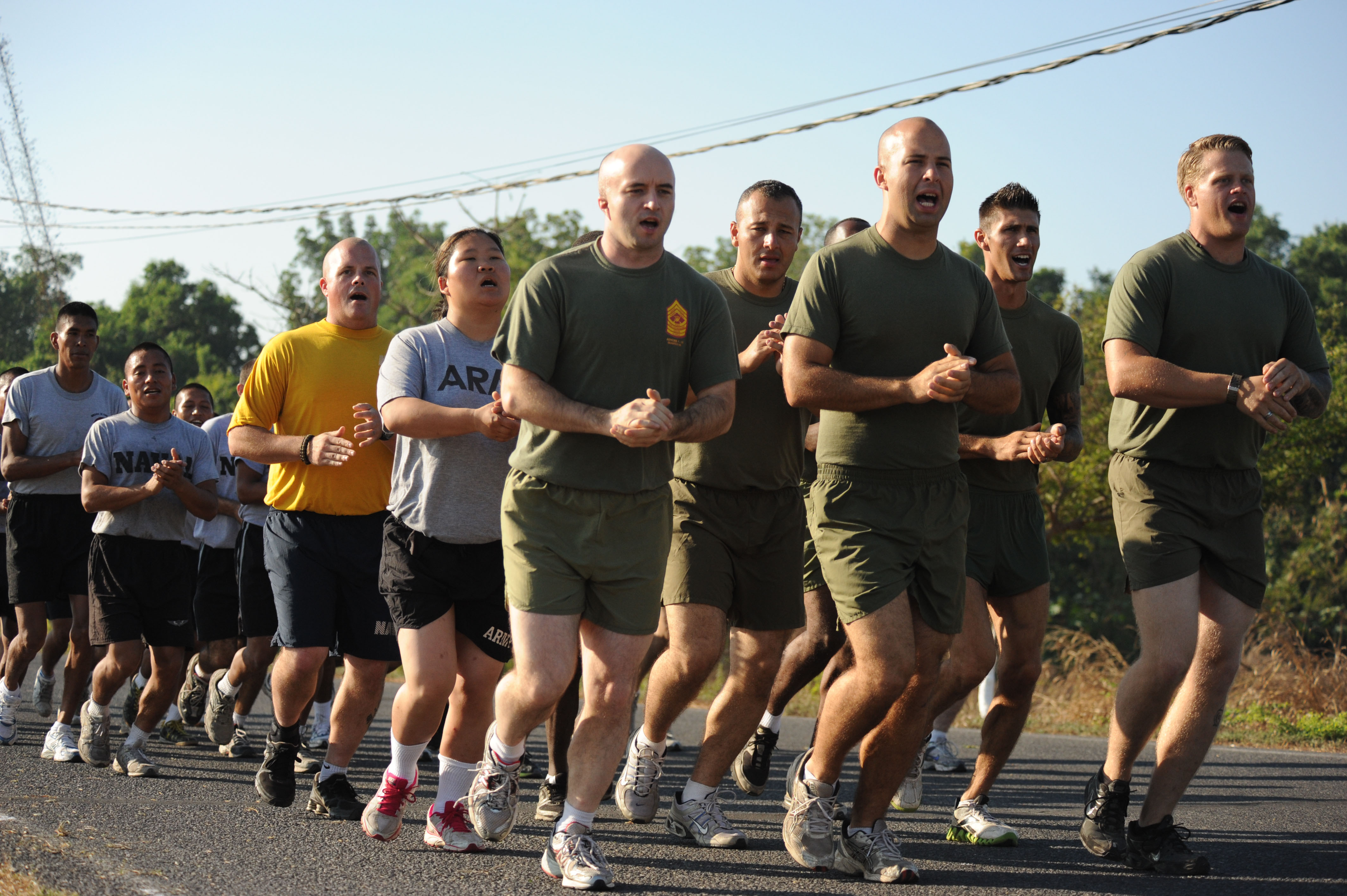 PUERTO QUETZAL, Guatemala (Jan. 13, 2012) Marines and Sailors from High Speed Vessel (HSV 2) Swift run in formation with Guatemalan Sailors and paratroopers during a morning physical training session. The exercise was part of Southern Partnership Station, an annual deployment of U.S. ships to the U.S. Southern Command area of responsibility in the Caribbean, Central and South America. (U.S. Navy photo by Lt. Matthew Comer/Released)